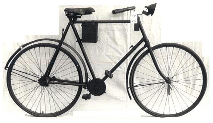 An object from the collections of the Science Museum (London) as copied from their ObjectWiki.